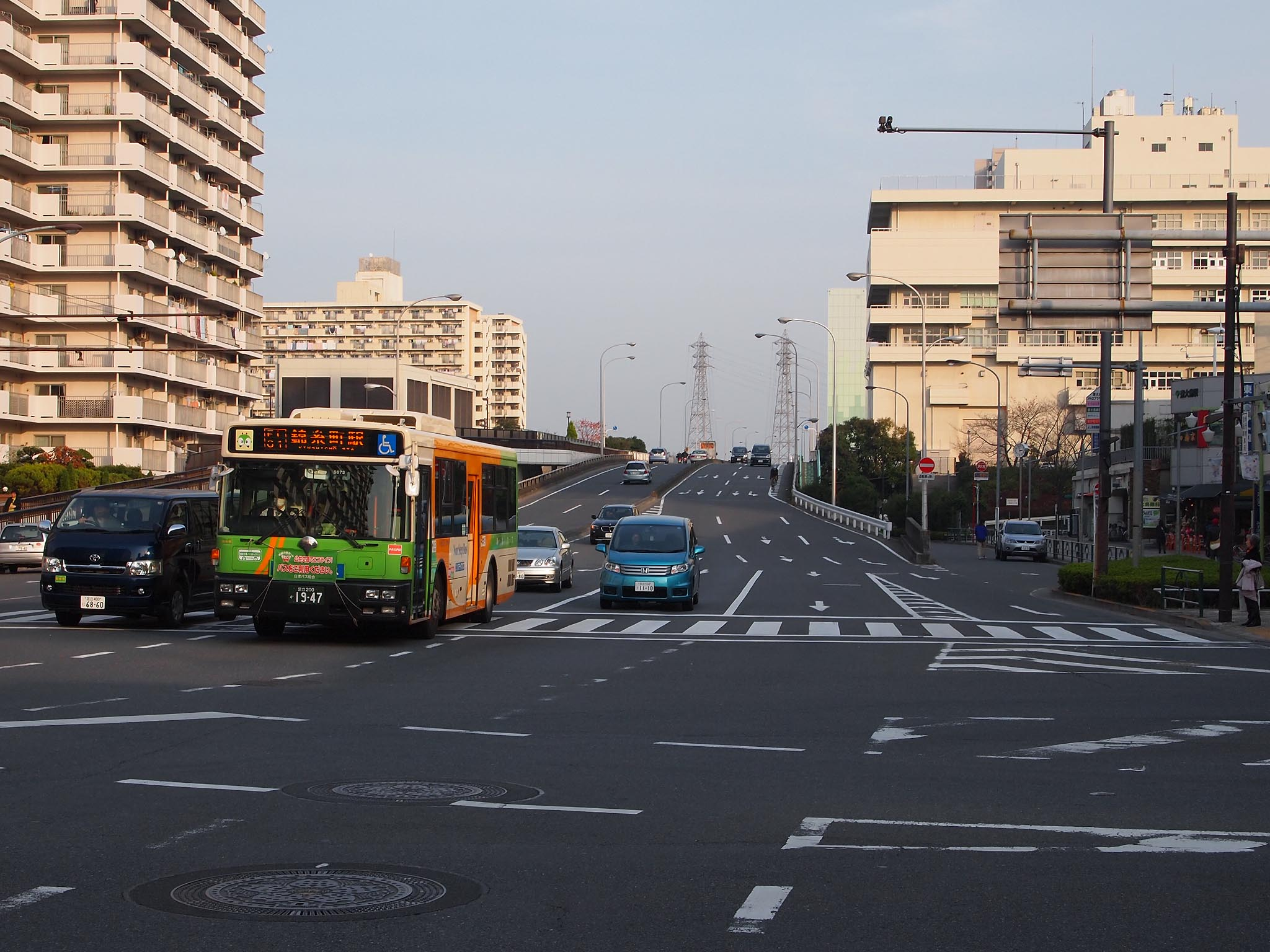 Toei Bus FL01 Route, between Kasai and Kinshicho via Funabori-Bashi bridge, operation on every Saturday, Sunday and Holidays.